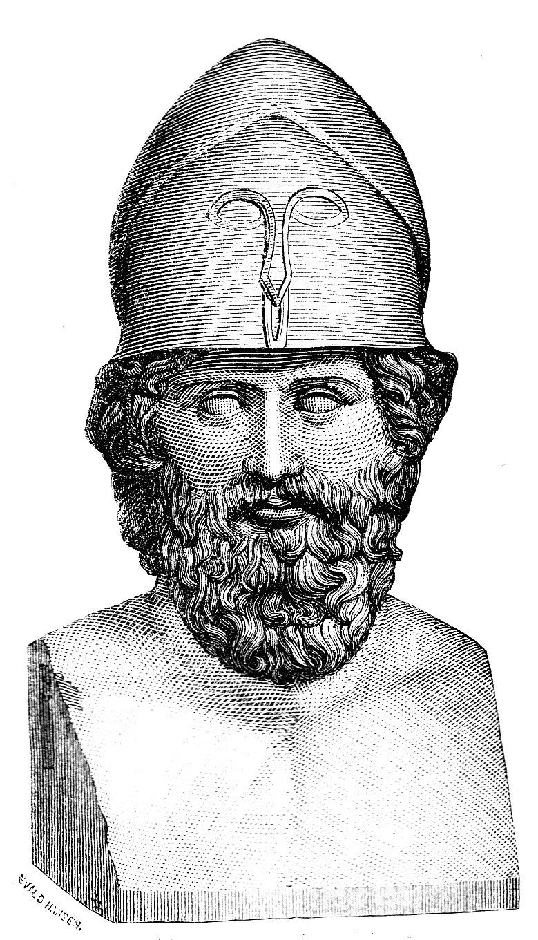 Illustration from "Illustrerad verldshistoria utgifven av E. Wallis. volume I": Themistocles.